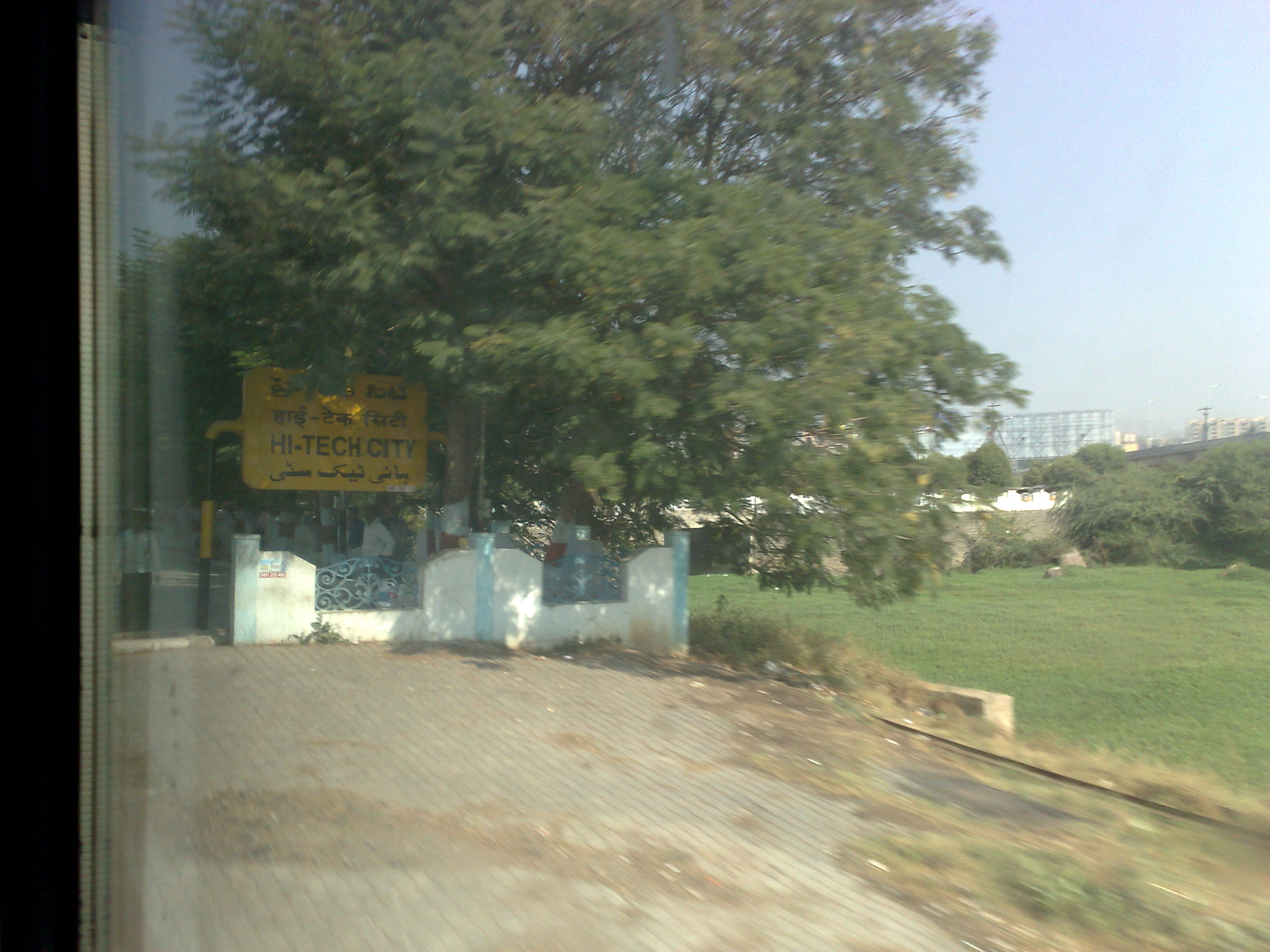 High Tech City